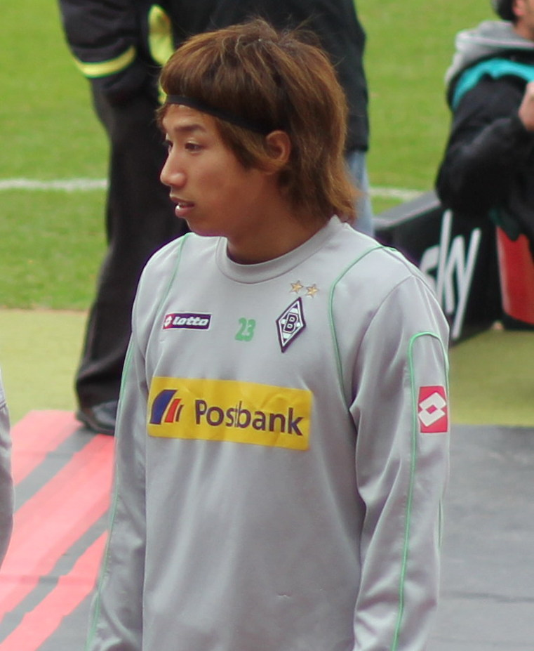 Yūki Ōtsu, Japanese football player for German side Borussia Mönchengladbach, 2011/12 season